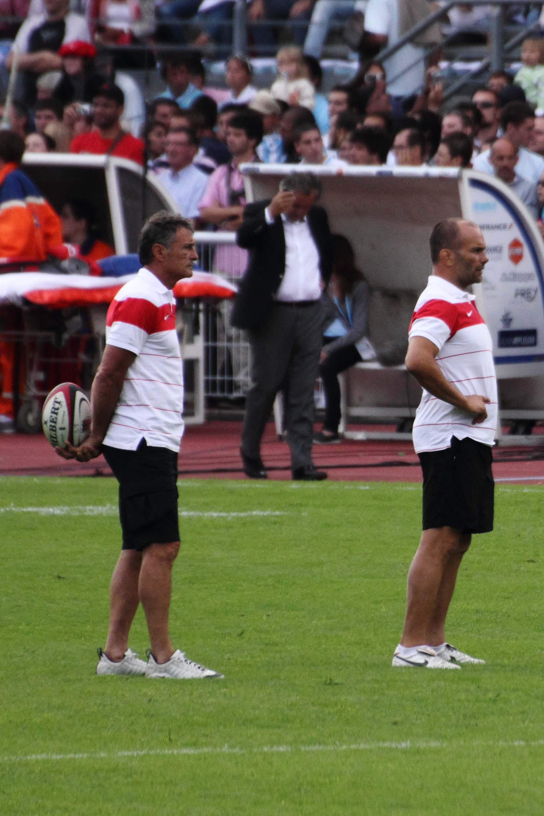 Head of Stade toulousain - Guy Novès (manager), Yannick Bru (coach of forwards) and president Bouscatel in the background.